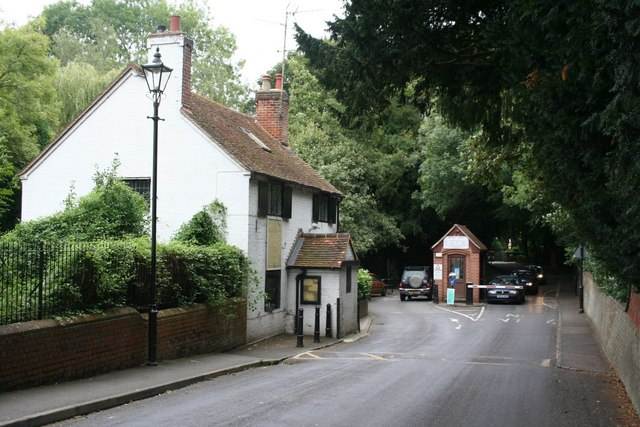 Whitchurch Bridge, Whitchurch-on-Thames, Oxfordshire. Tolls are now collected at the toll-booth in the middle of the road. The 18th-century Tollhouse on the left is now a private house.